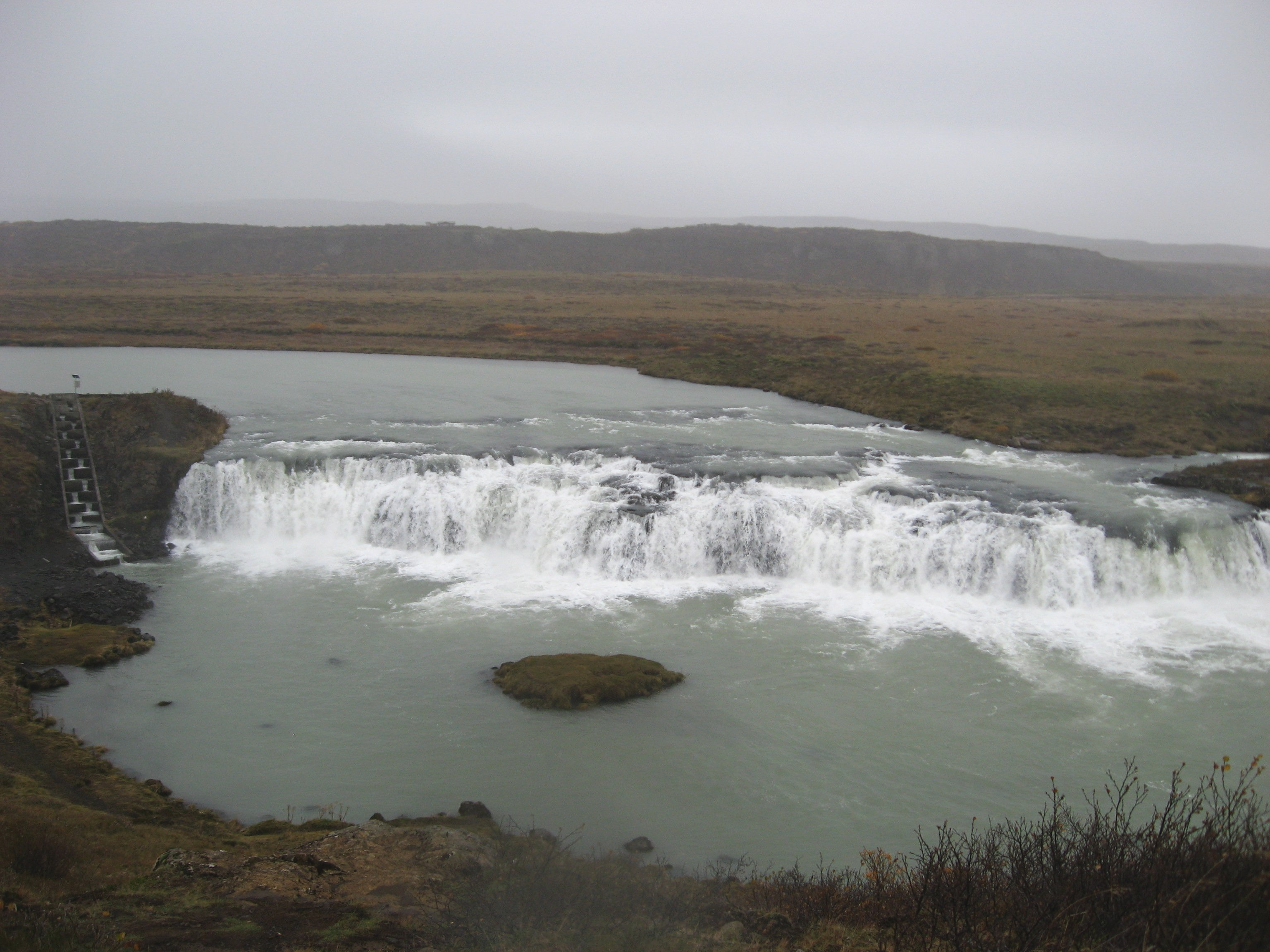 The Faxi Waterfall in Iceland. Taken in October 2007.